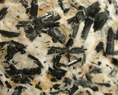 Glaucophane (cutout extension; Size over all: 11.4 x 6.9 x 3.8 cm) Locality: Tiburon Peninsula, Marin County, California, USA (Locality at ) Lustrous, black glaucophane prisms are festooned on all sides of the gneiss matrix of this fine cabinet specimen from Marin County, California. Glaucophane is an uncommon amphibole group mineral and is found in low to medium temperature metamorphic terrains. It is relatively common in California, but is seldom seen in old-time, quality specimens, such as this. Ex. Mullane Collection.